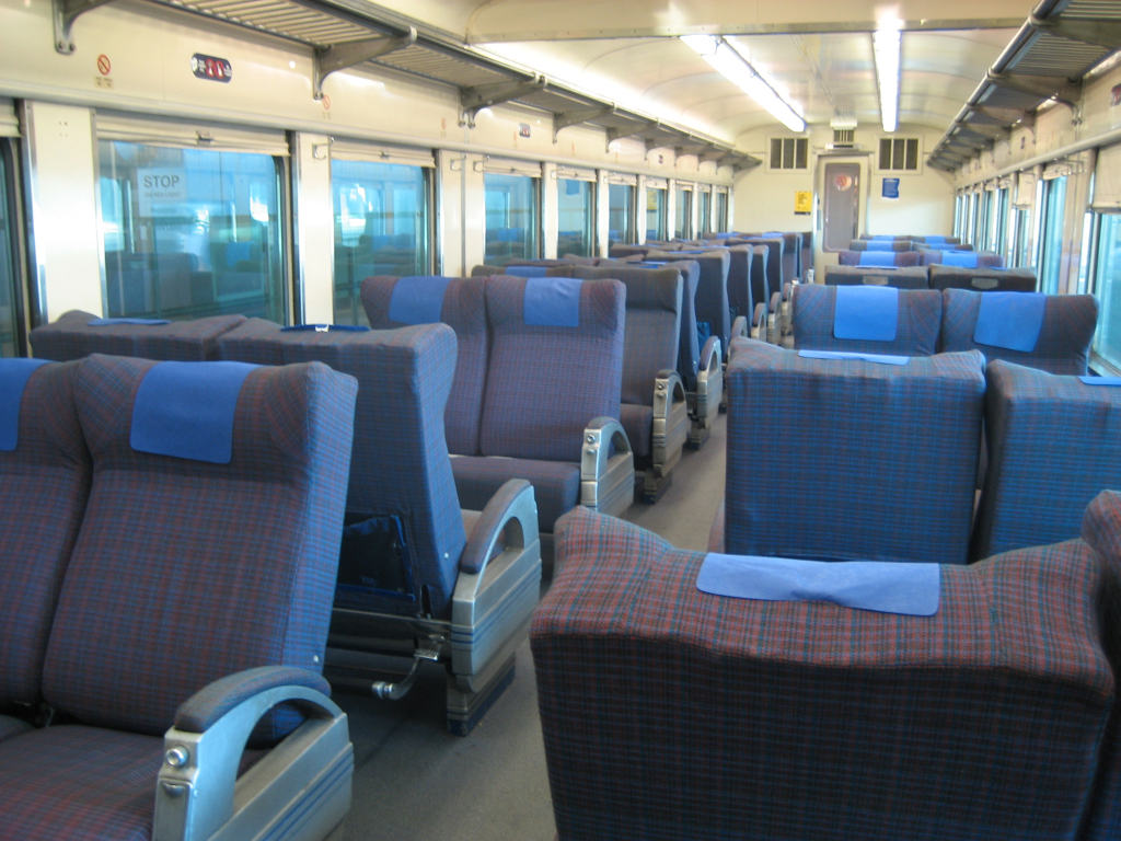 Interior of a ACZ type carriage. V/Line, Victoria, Australia